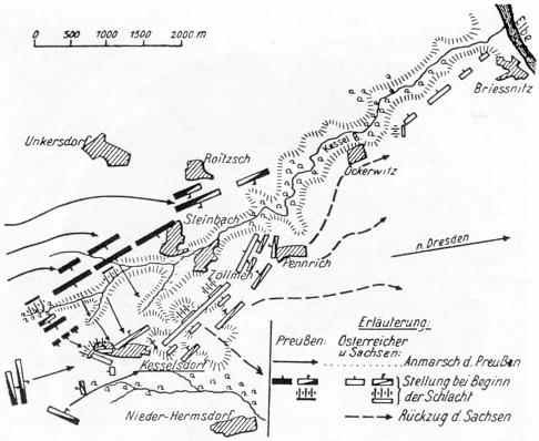 Historical map of the campaign by Kesselsdorf